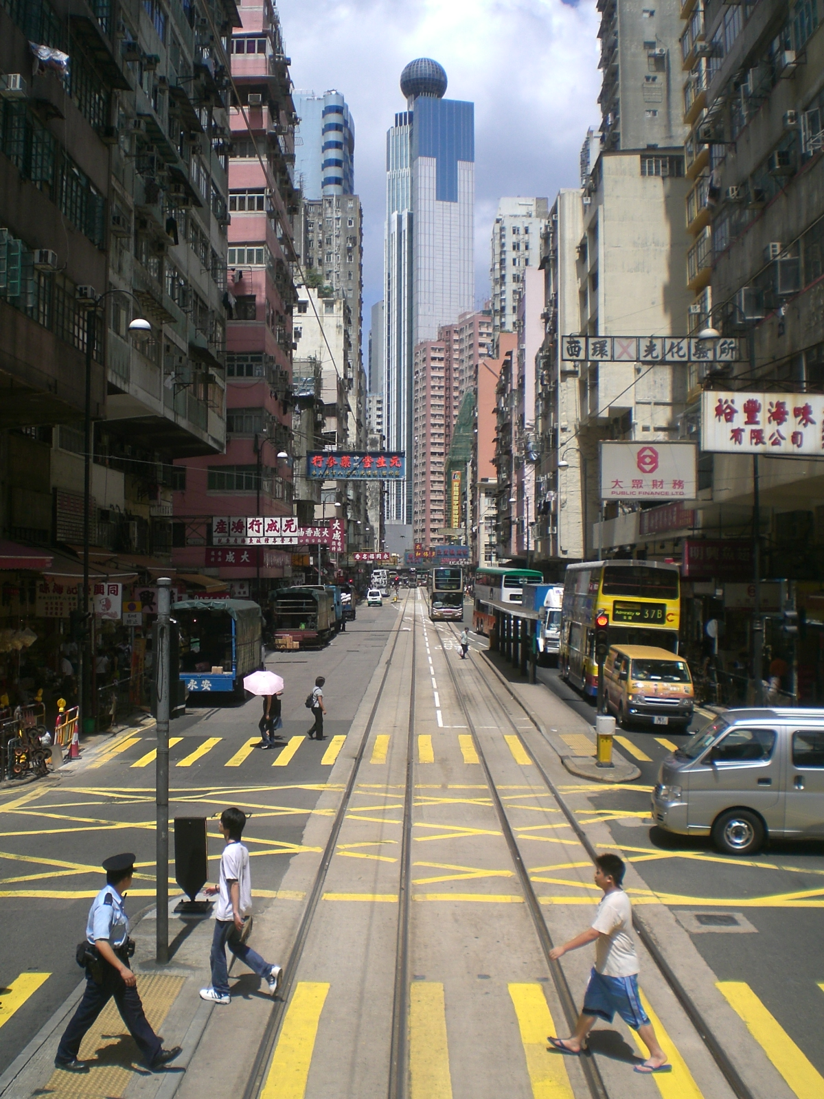 德輔道西電車路, 遠眺香港中聯辦大廈